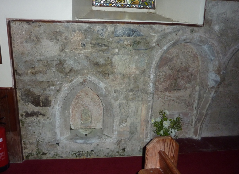 St Moluag's Cathedral, Lismore, Scotland. Piscina and sedilia in the southern wall.